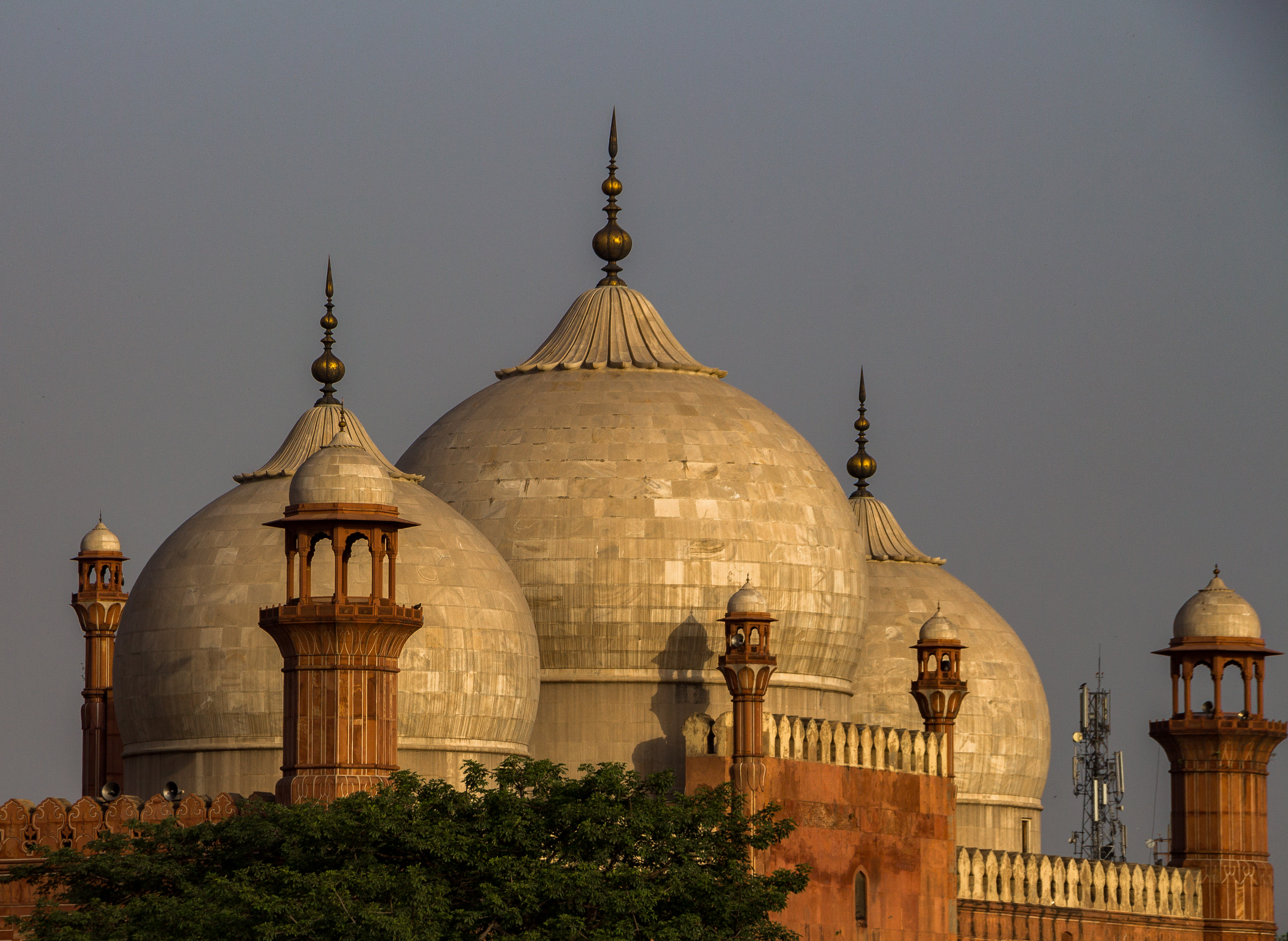 Badshahi Mosque (King’s Mosque) This is a photo of a monument in Pakistan identified as the PB-44